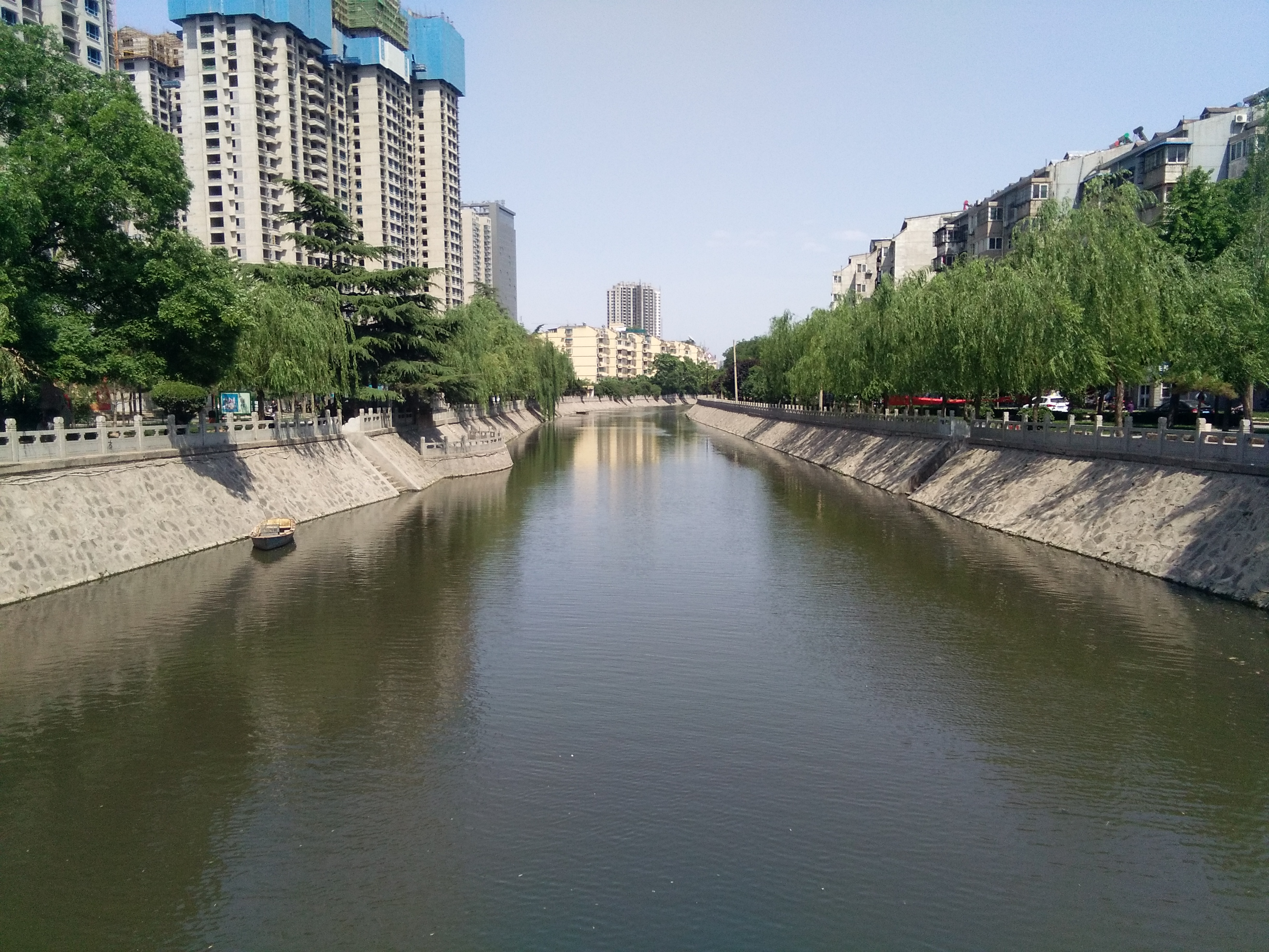 Qinhe River of Handan.